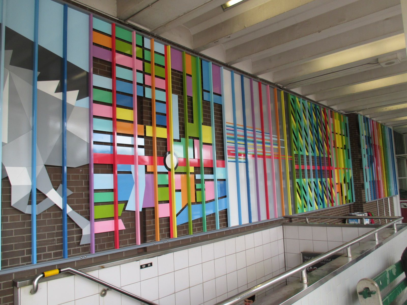 Artwork in Sherbourne station on Toronto subway Line 2 Bloor–Danforth: "Directions Intersections Connections" by Marmin Borins consisting of brightly-coloured coated metal panels arranged in geometric patterns.